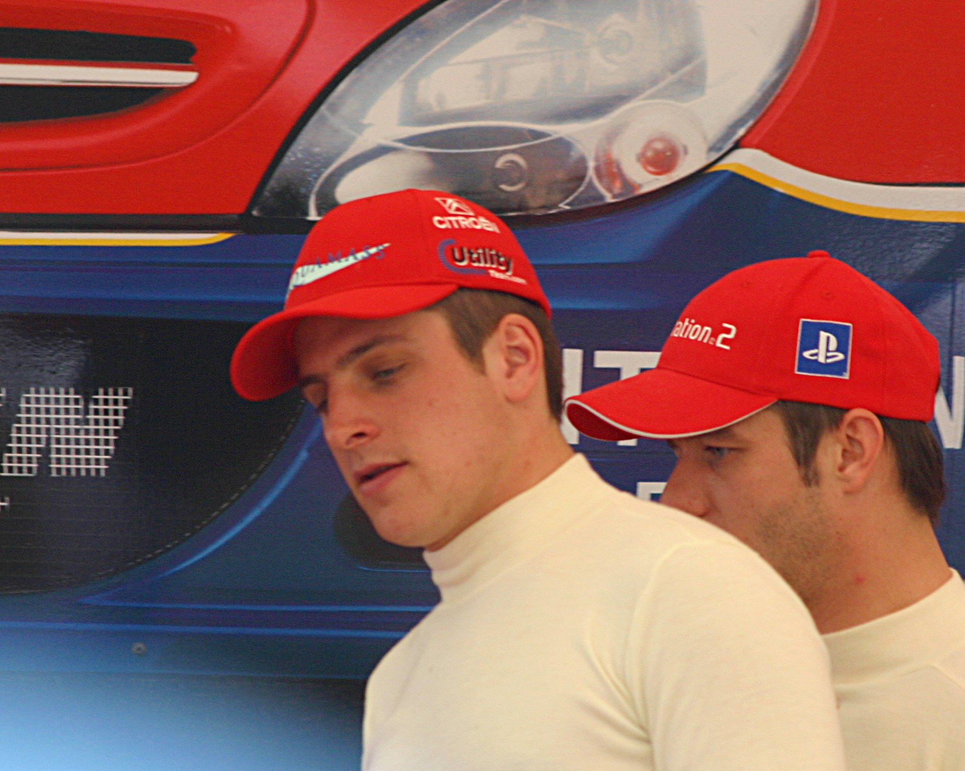 Sébastien Loeb and François Duval at 2005 Cyprus Rally